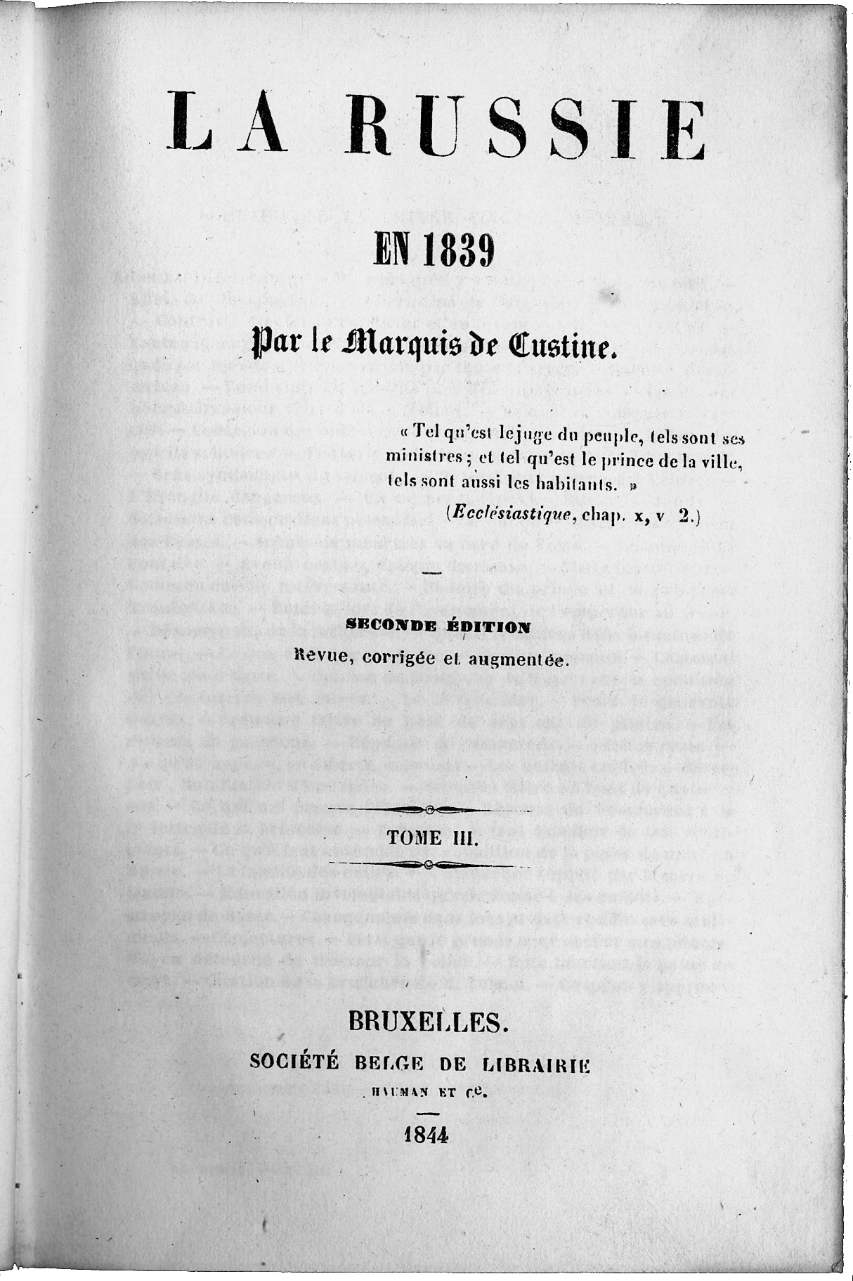 "Россия в 1839 году", 2 издание 1843 года.